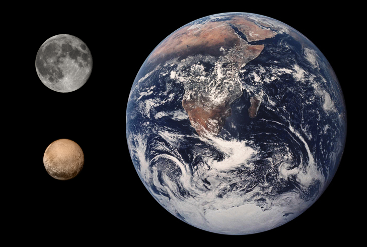 Diameter comparison of Pluto, Moon, and Earth. Scale: Approximately 28.9 km per pixel.